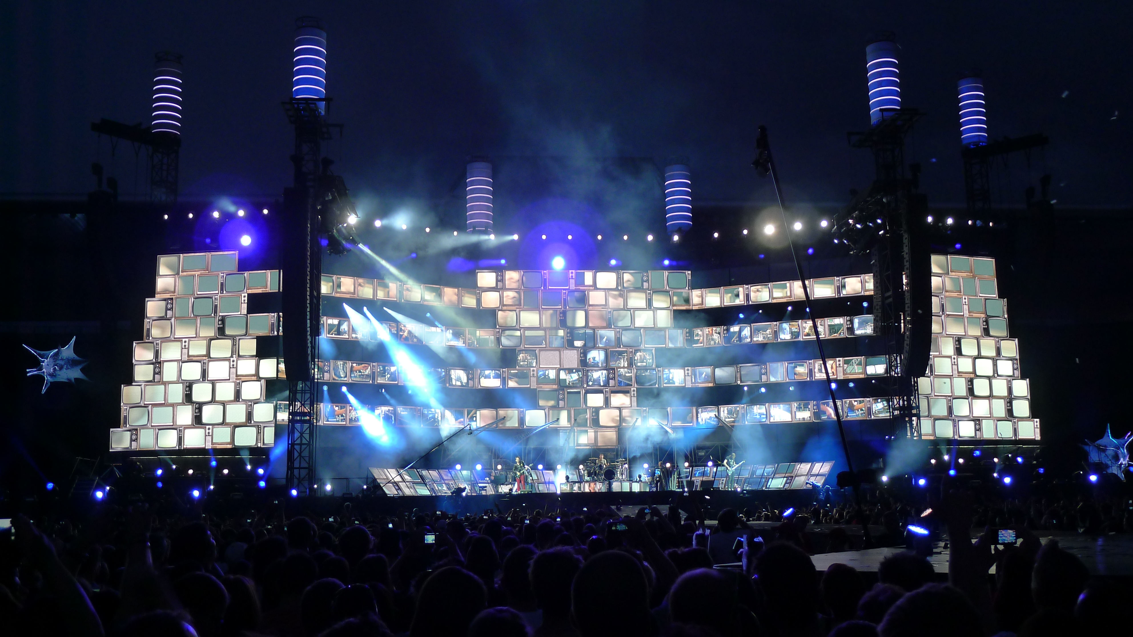 Stage from Muse during Stockholm Syndrome.